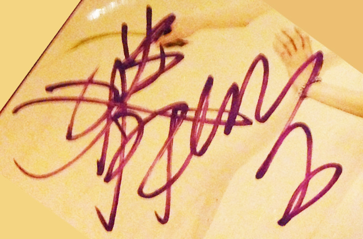 This is Joyce Tang's signature.